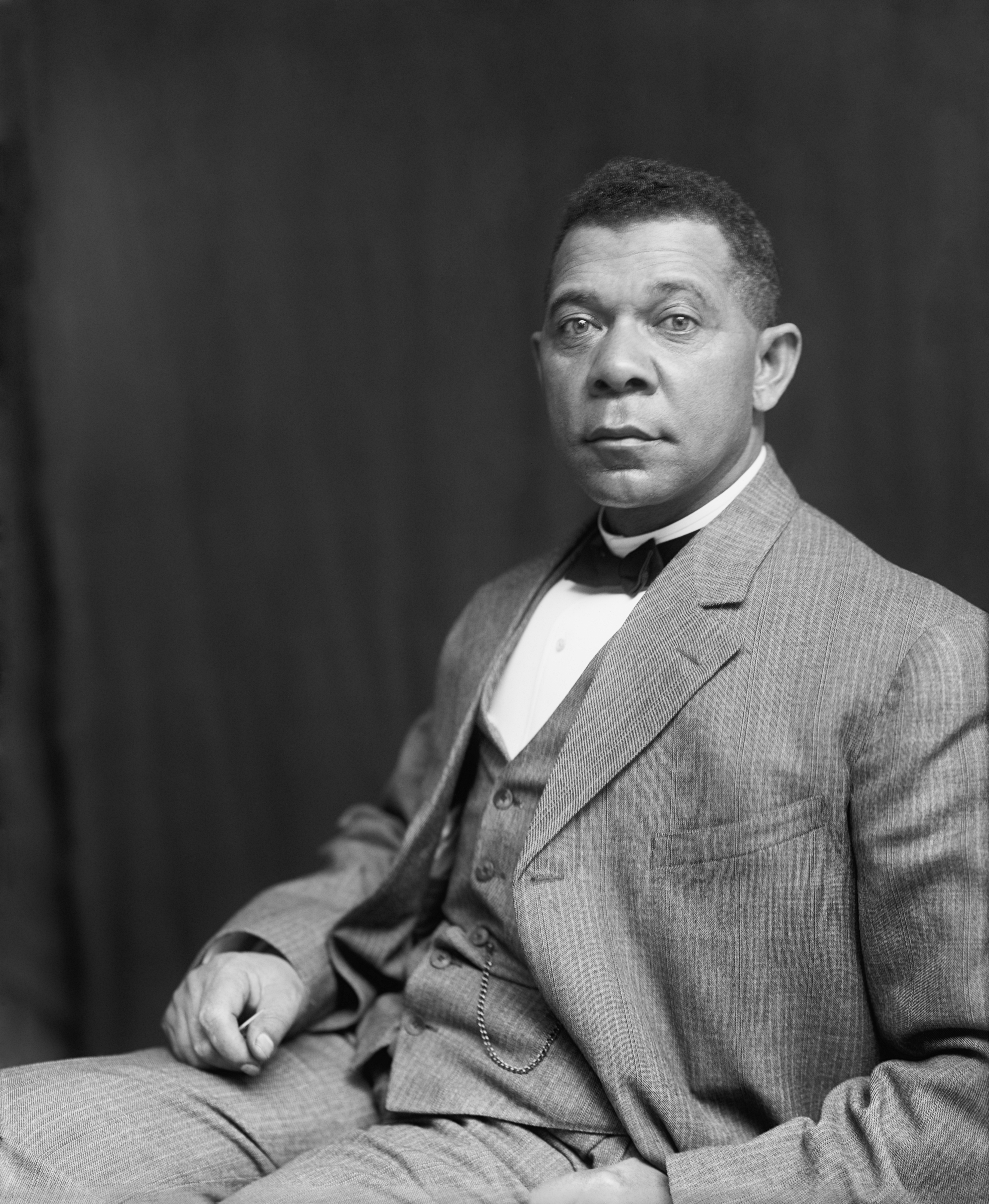 Portrait of Booker T. Washington by Frances Benjamin Johnston